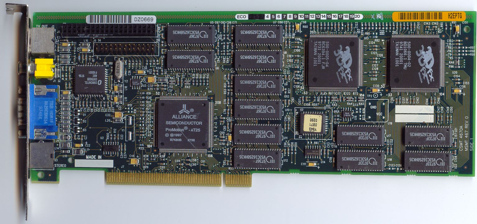 Intergraph Intense3D Voodoo accelerator card. 3Dfx Voodoo Rush-based.